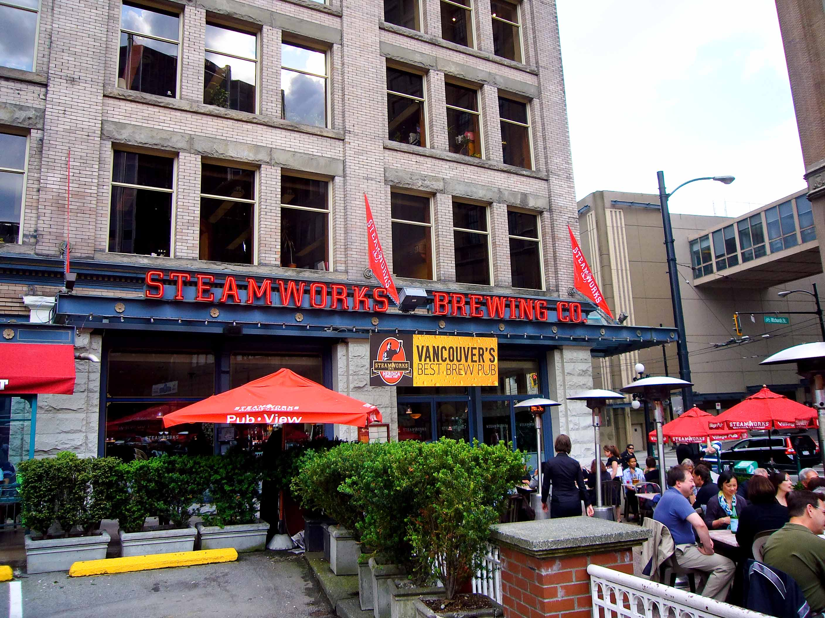 Steamworks Brewing Company in June 2009.